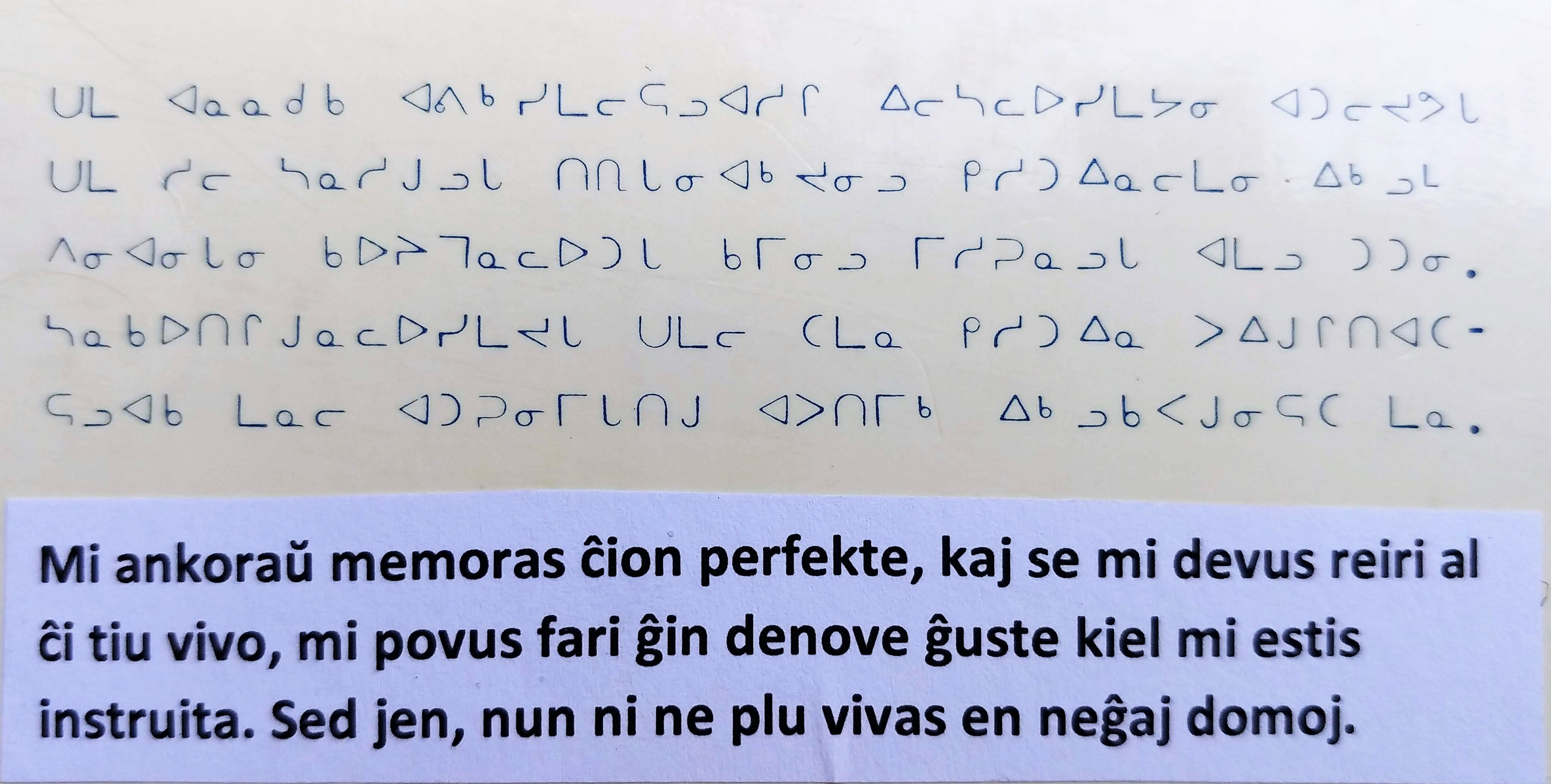 Text in inuit with translation in Esperanto.